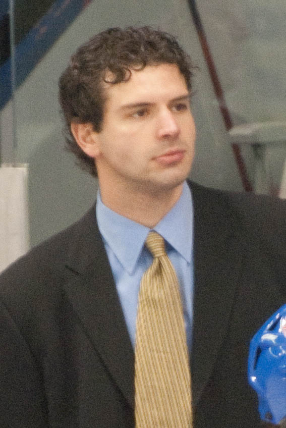 Shaun Sutter behind the bench for the Regina Pats.